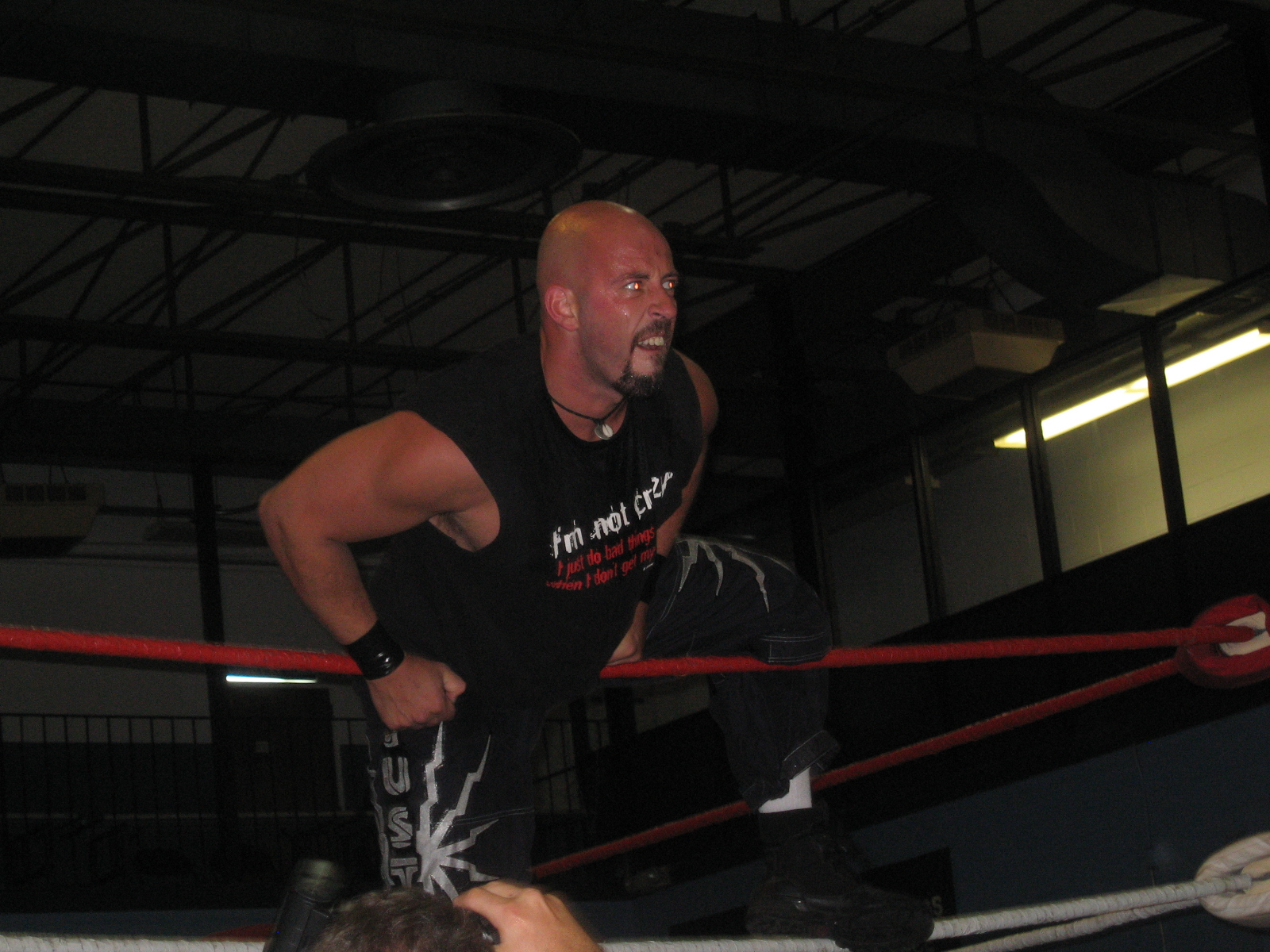 Taken by me in Garfield NJ on June 25 2007,for Pro Wrestling Syndicate, all work herin released to wiki community